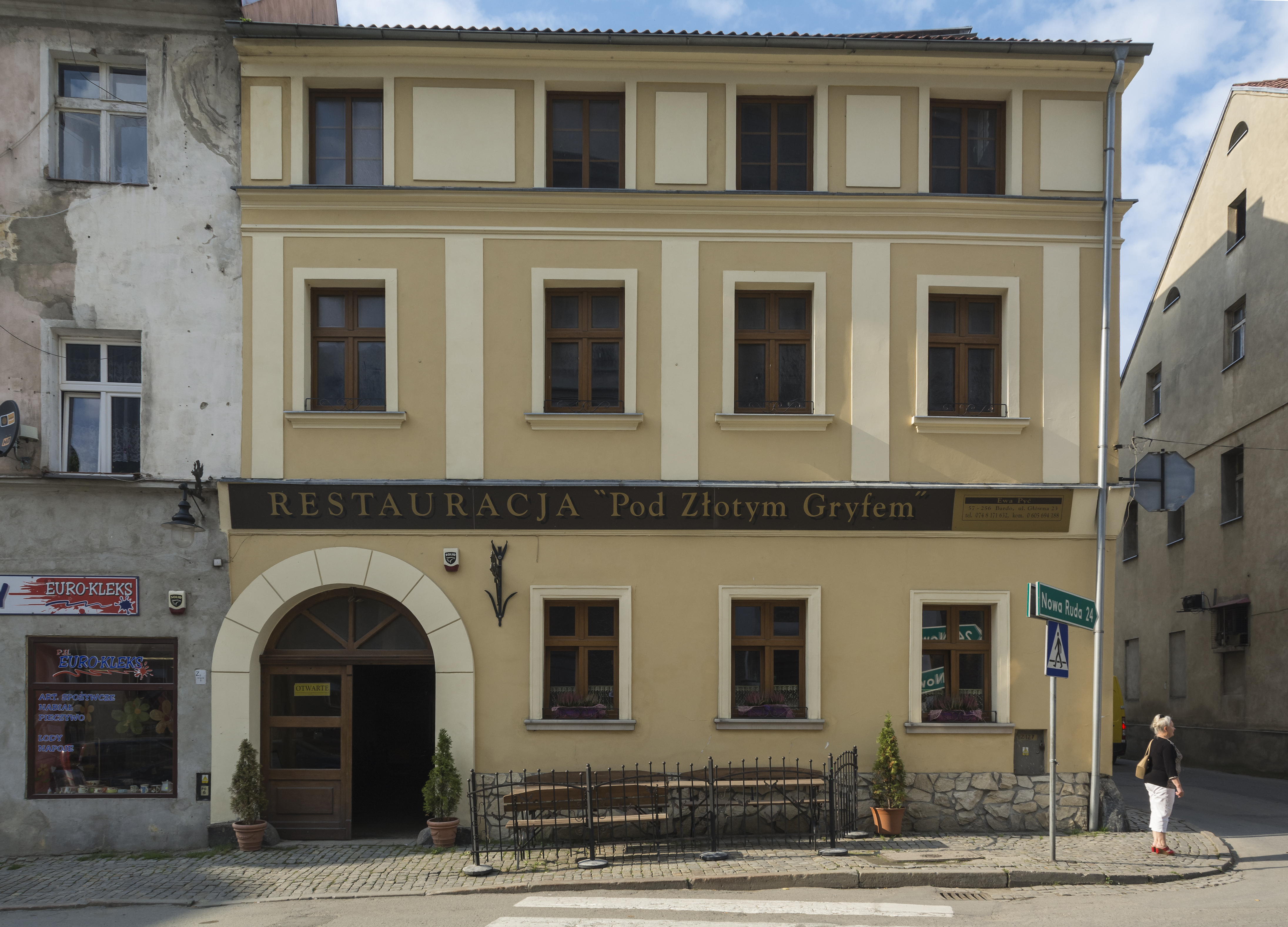 23 Główna Street in Bardo